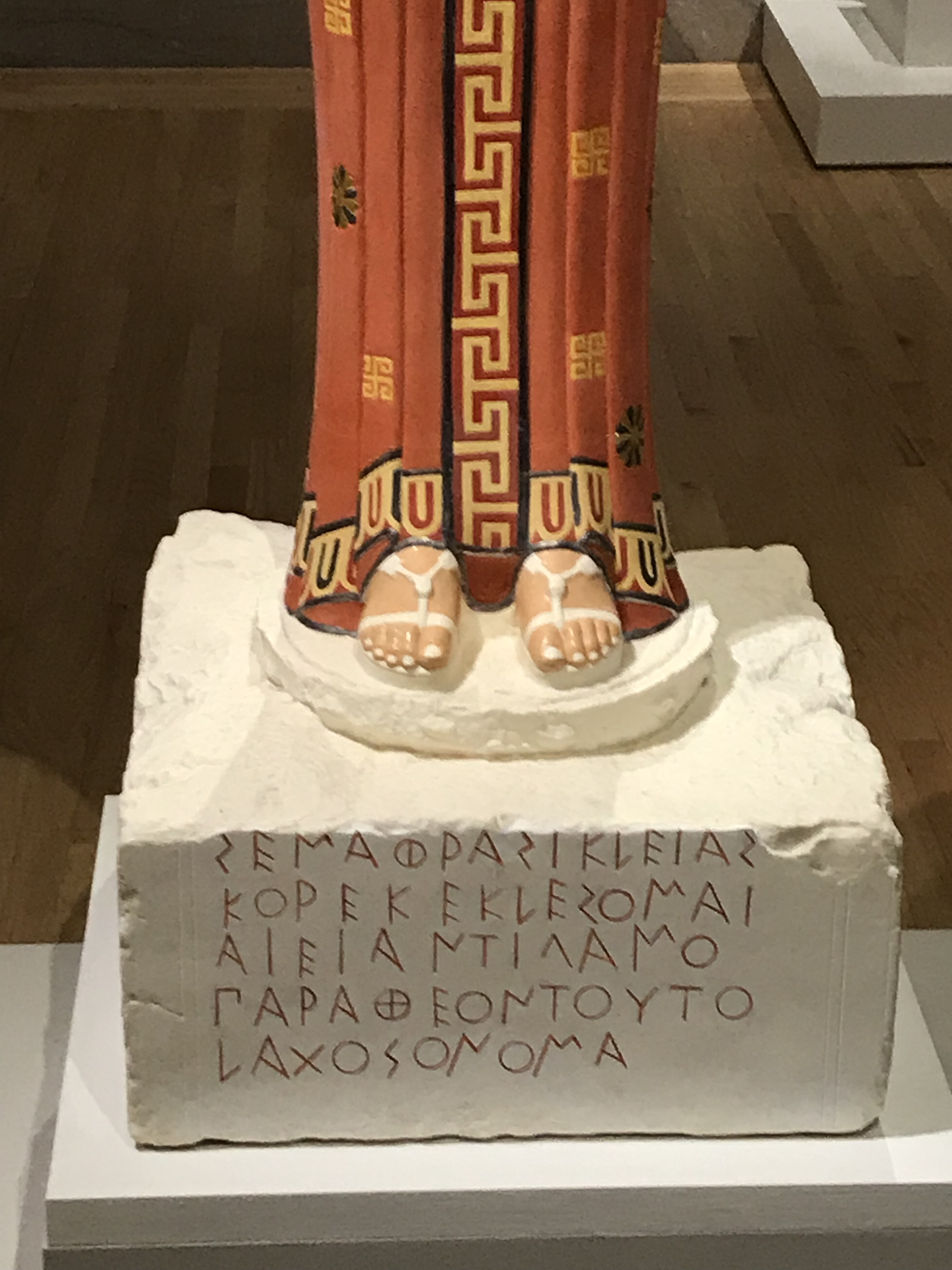 Inscription on the front of the Phrasikleia Kore. Photo: courtesy of Brigid Powers 2017, from Gods in Color San Francisco, CA.